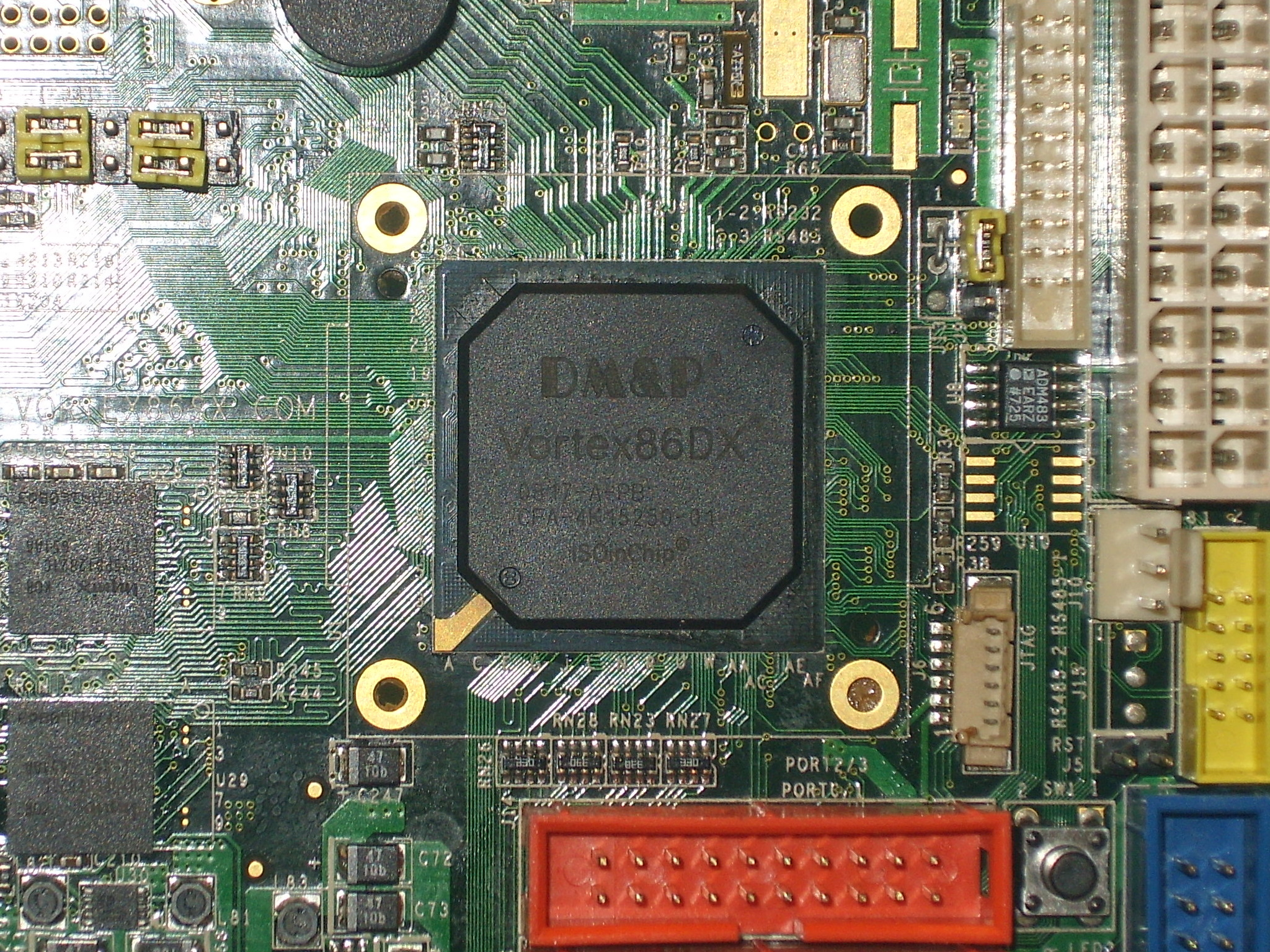 2008 Computex: DM&P Vortex86DX.